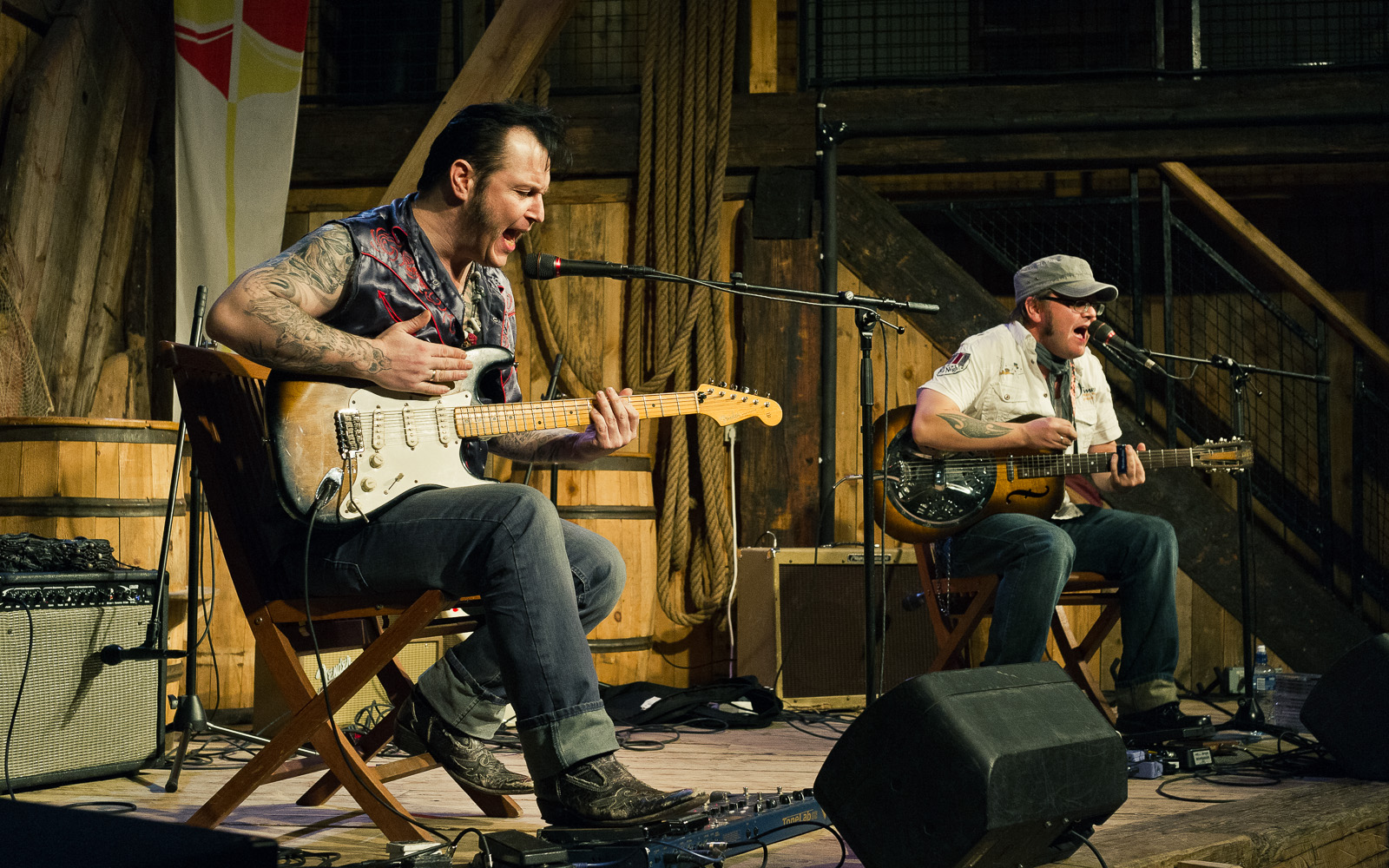 Vidar Busk playing live at "Blues i fjæra" festival 2010.